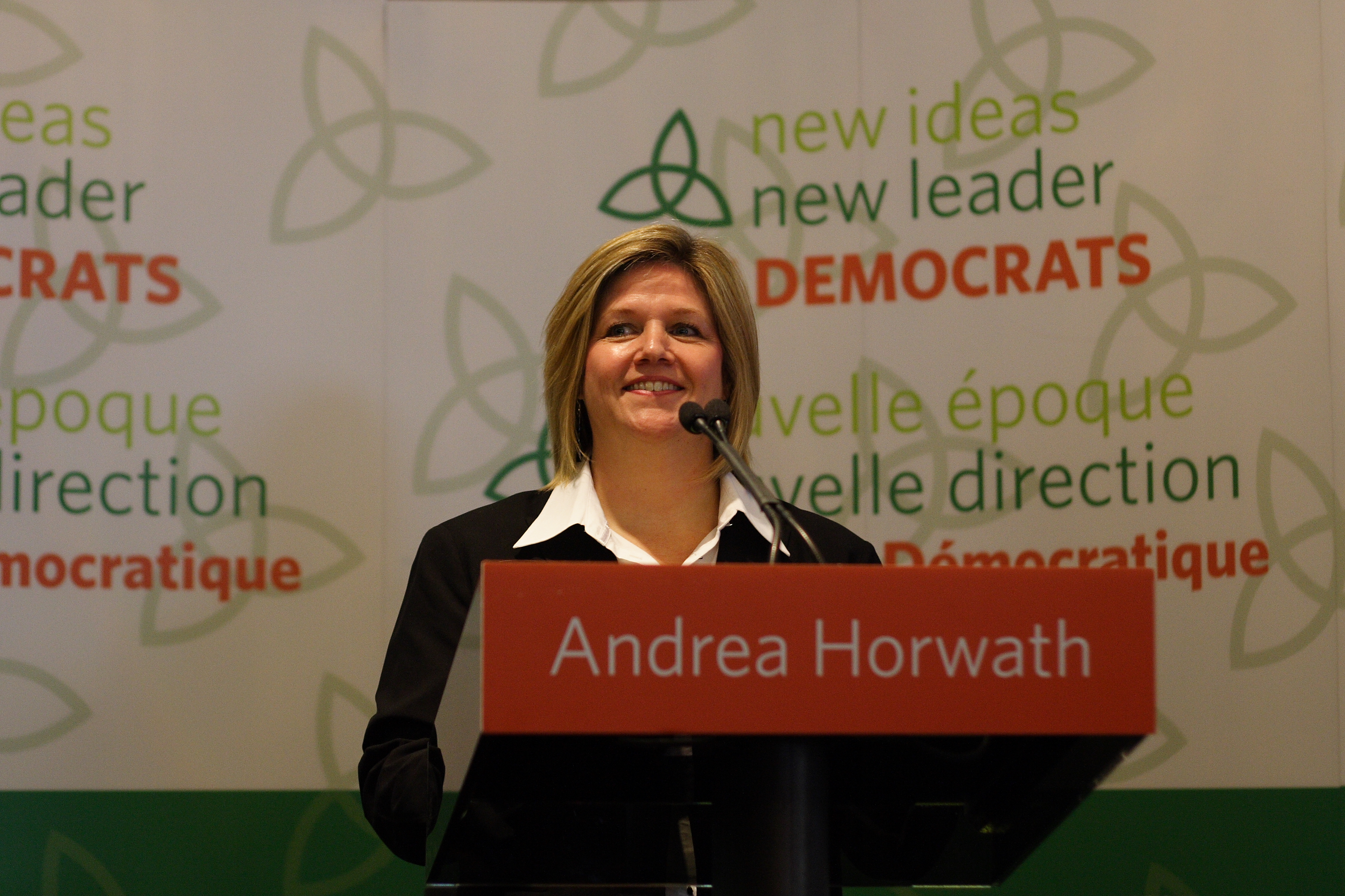 Andrea Horwath